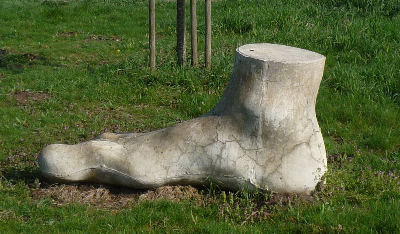 Sculpture in Ruchheim, part of Ludwigshafen, Germany